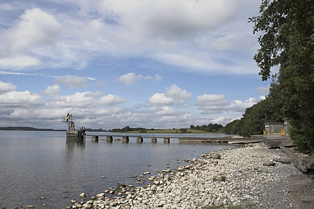 Diving board at Lough Owel. Diving boards and swimming area at Lough Owel